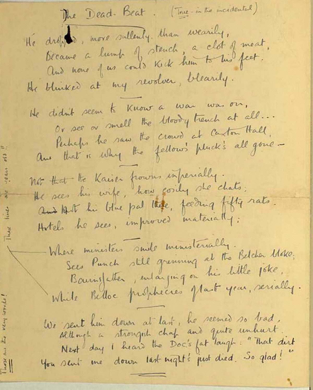 A Letter To Leslie Gunston which includes a draft of 'The Dead Beat'. The letter covers two days.